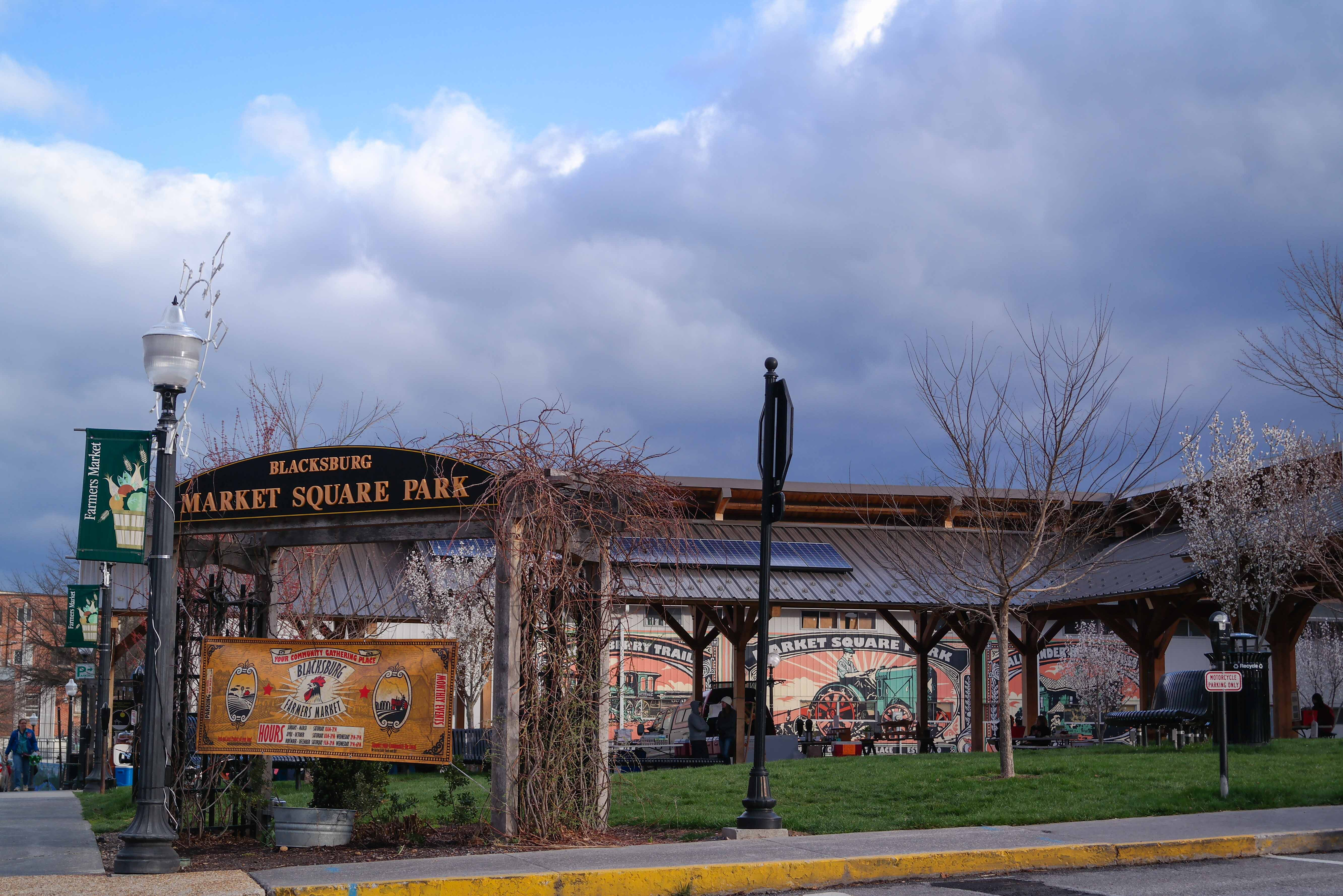 A park in downtown Blacksburg, Virginia